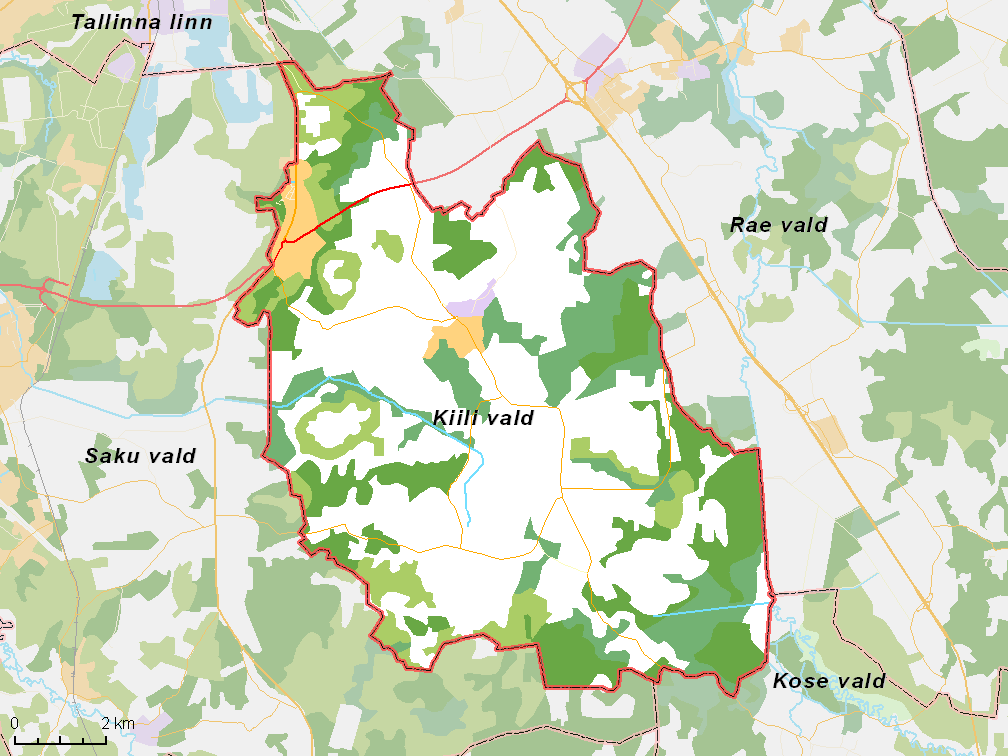 Map of municipality in Estonia